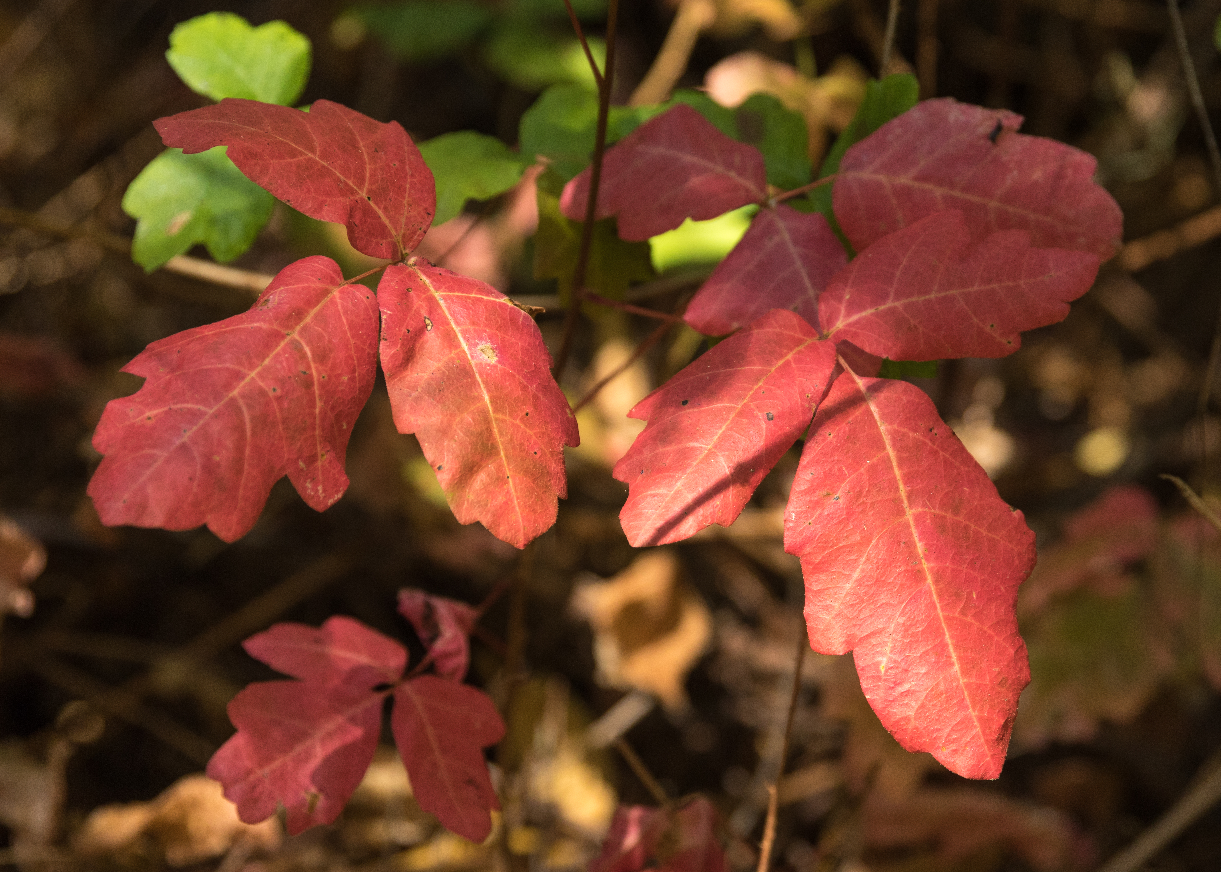 Pacific poison oak (Toxicodendron diversilobum) foliage at Samuel P. Taylor State Park, Marin County, California